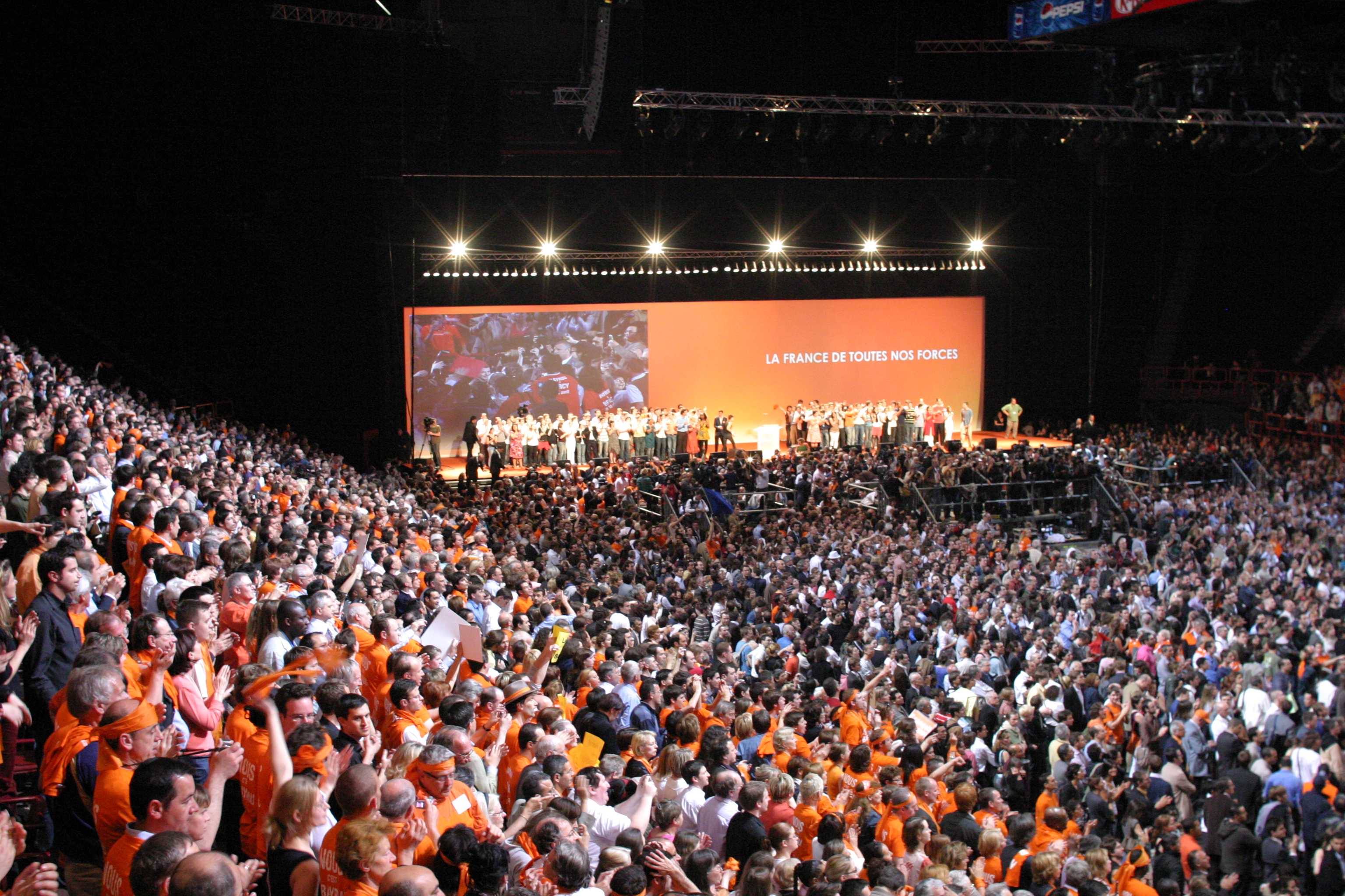 François Bayrou political meeting at Bercy on the 18th of April 2007 for the French presidential election. Copyright © 2007 Med